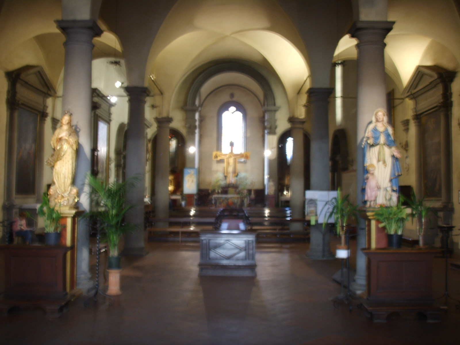 San Felice in Piazza church, in Florence, Italy